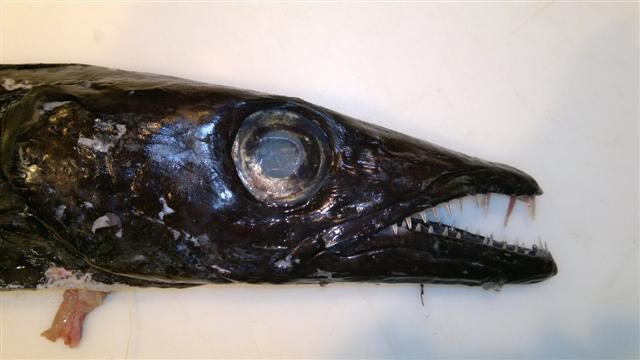 Head of Aphanopus carbo.